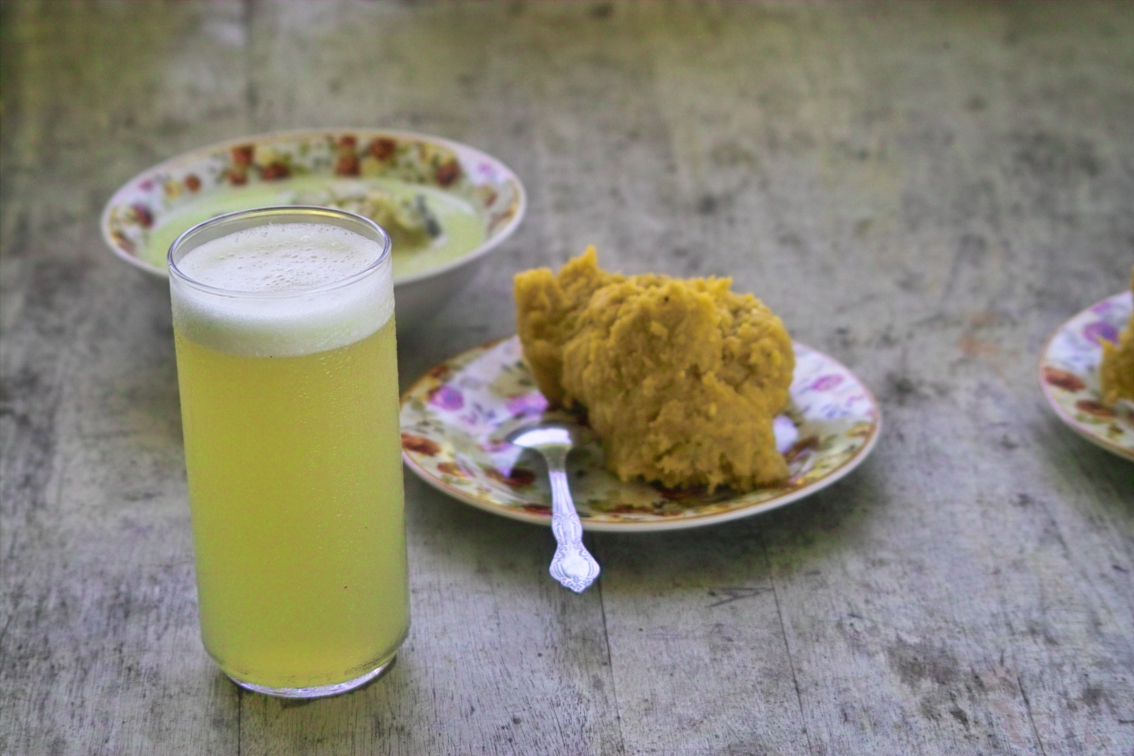 Garifuna Hudut Belize